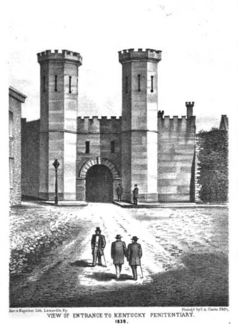 Towers were built at the entrance of Kentucky's first prison in 1838.